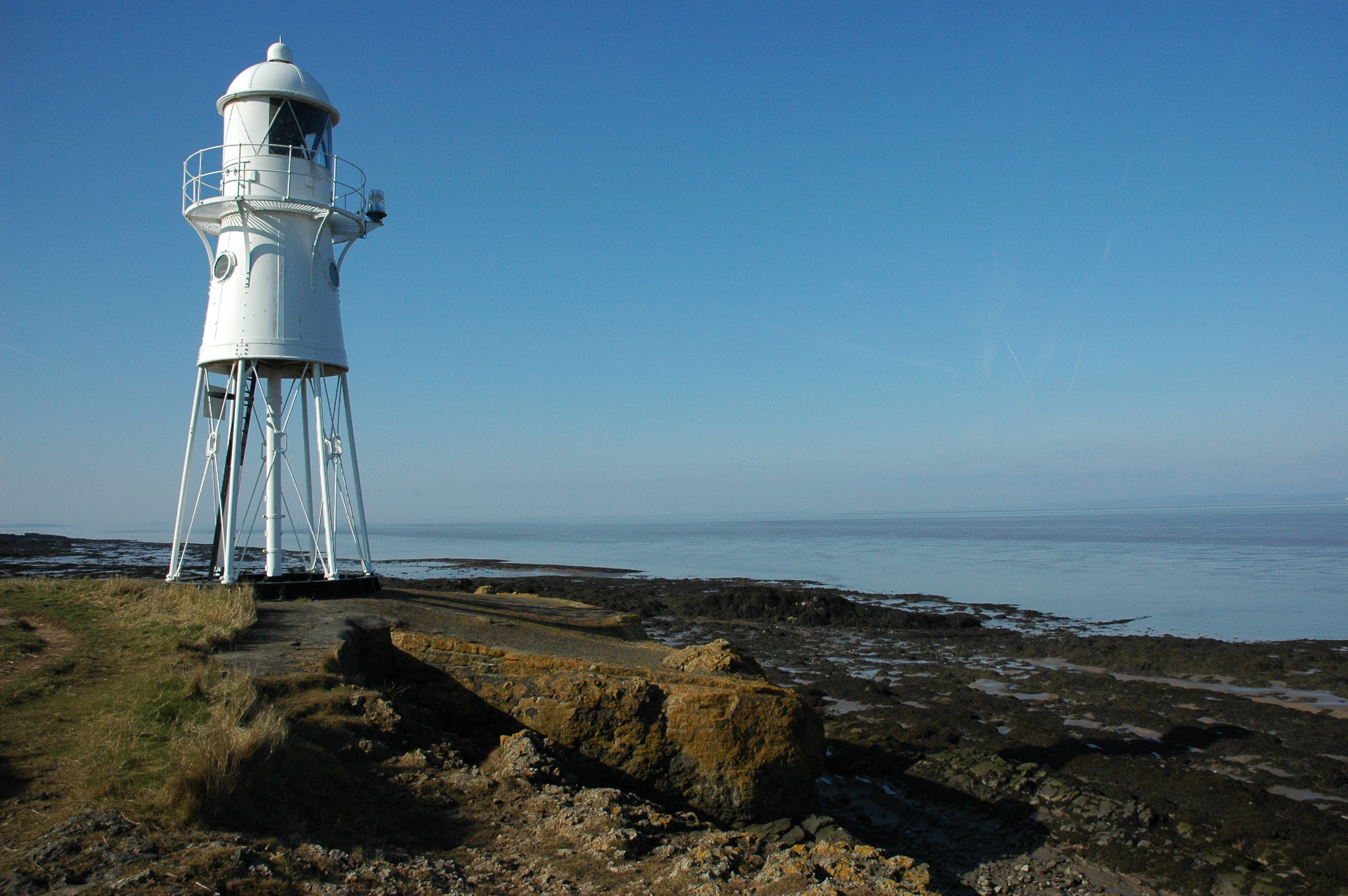 Blacknore Point Lighthouse The Blacknore Point Lighthouse overlooks the Bristol Channel and Severn estuary. It was built by Trinity House to aid shipping as it approached the docks at Avonmouth and the River Severn. Built in 1894, it was converted to automatic electric operation in 1941.